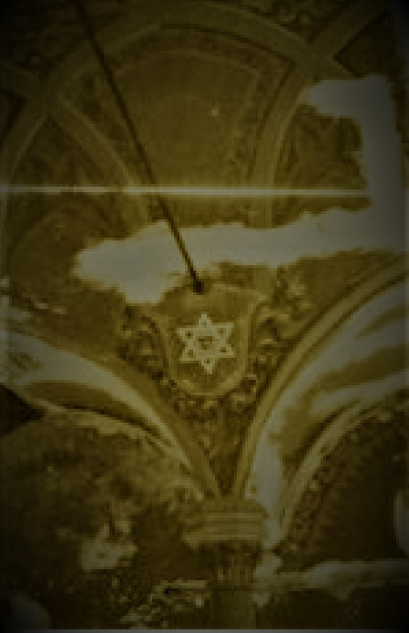 Spanish Temple, at 18 on Mircea Street in Constanța, Romania, 1941